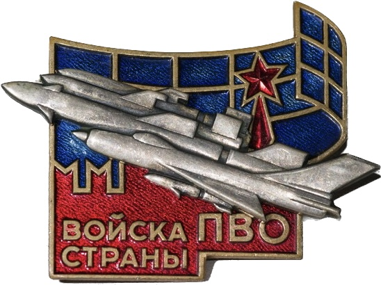 Soviet Military Honorary Badge Anti-Aircraft Defence.